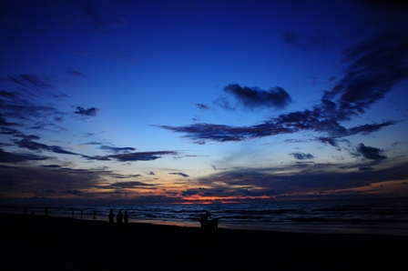 Beach Luak Esplanade